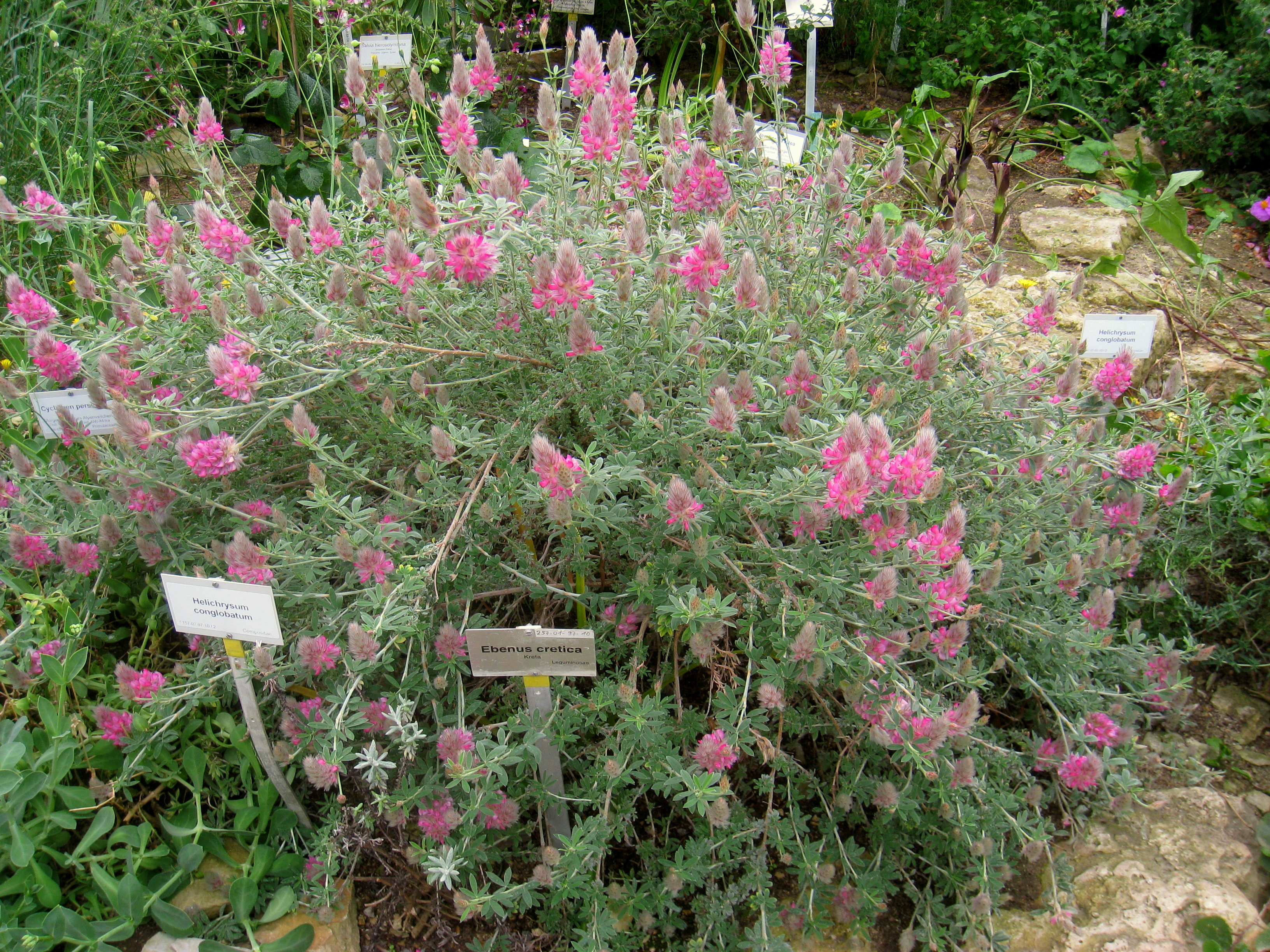 Ebenus cretica specimen in the Botanischer Garten, Berlin-Dahlem (Berlin Botanical Garden), Berlin, Germany.